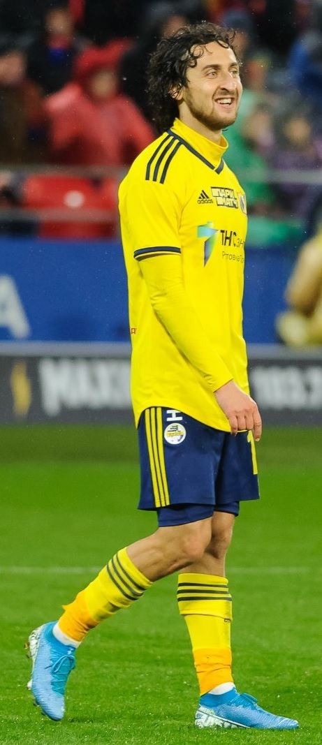 Khoren Bayramyan with FC Rostov in a game against PFC CSKA Moscow.